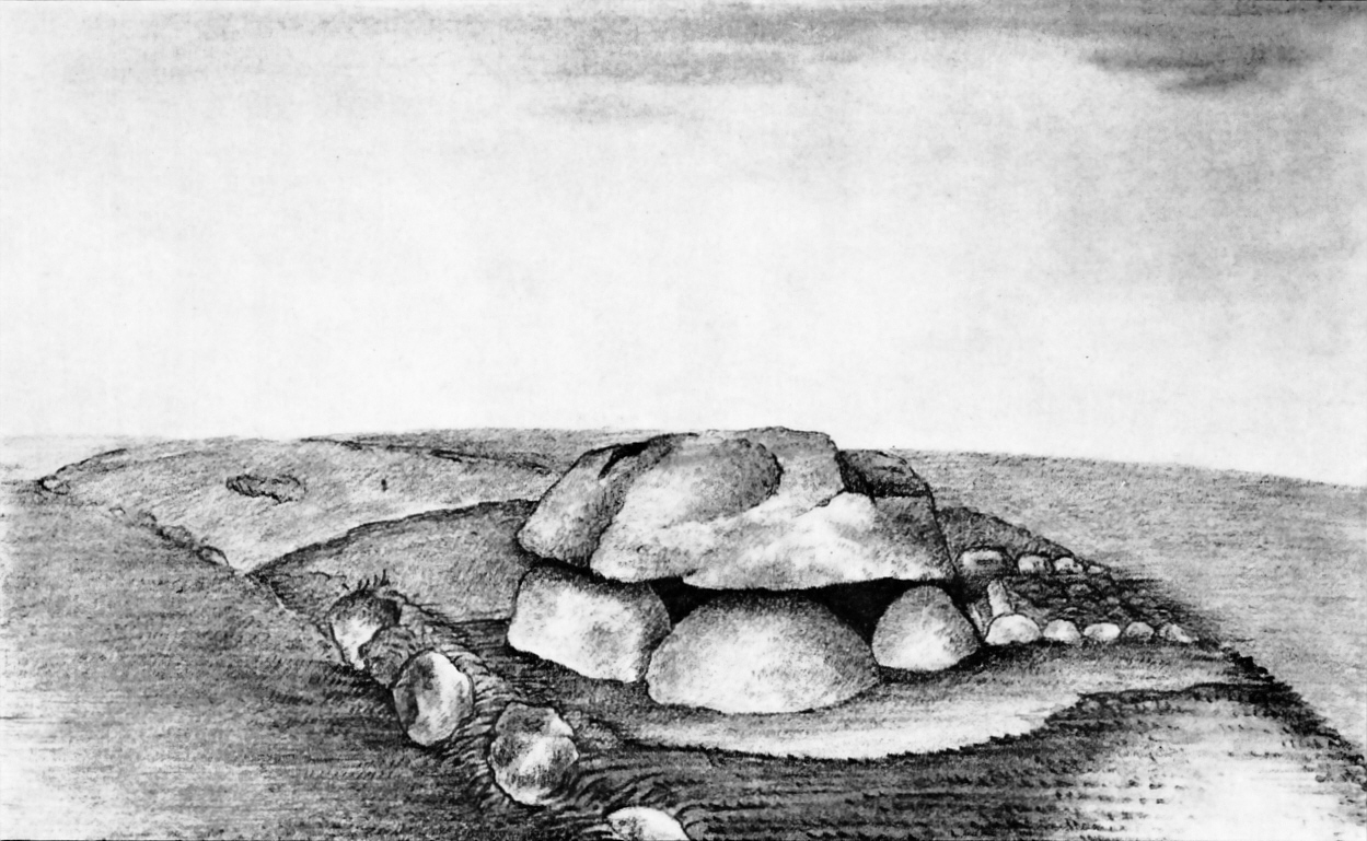 Drawing of the Dolmen near Bockholm.